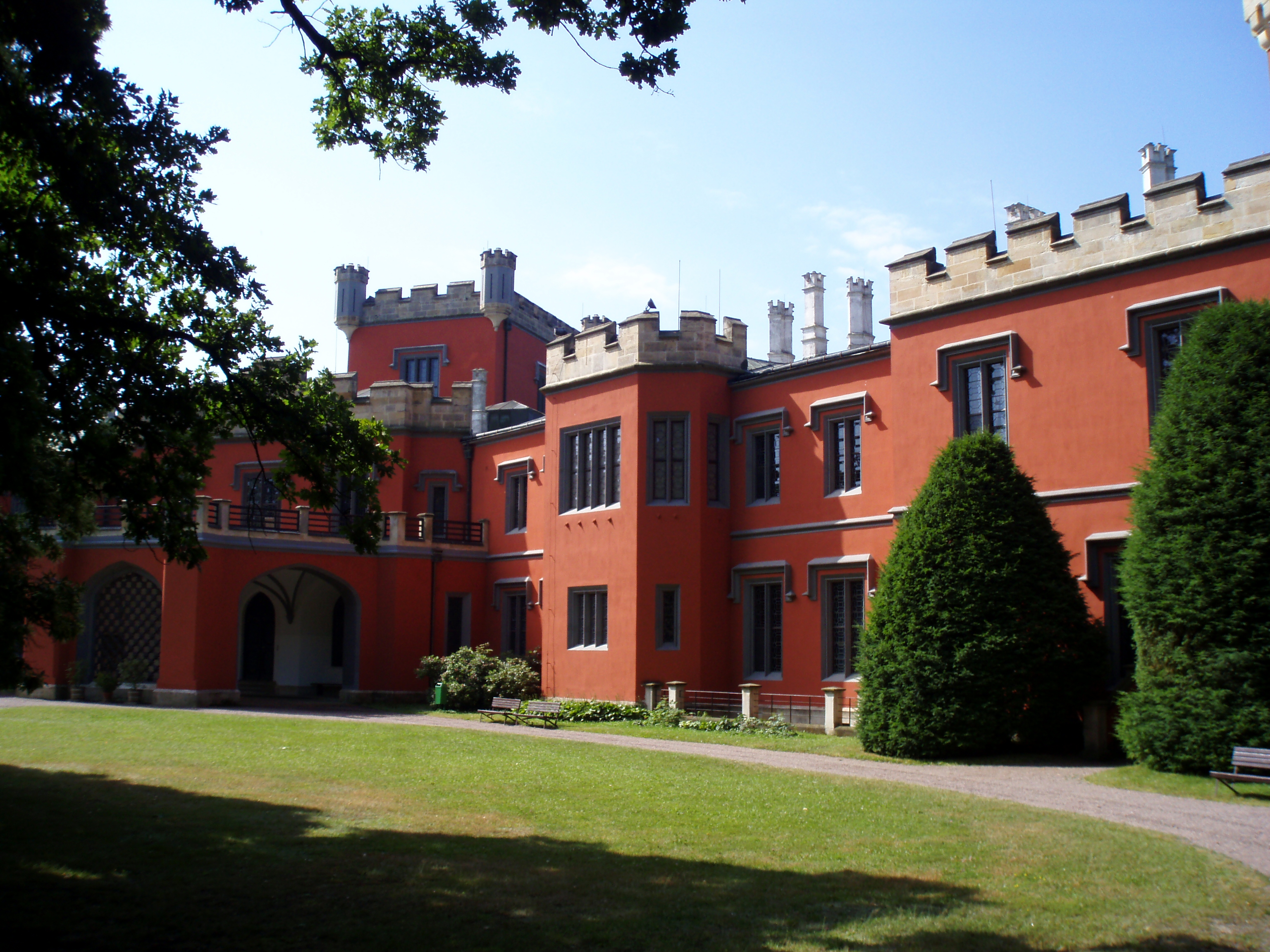 Castle Hradek u Nechanic (CZ)